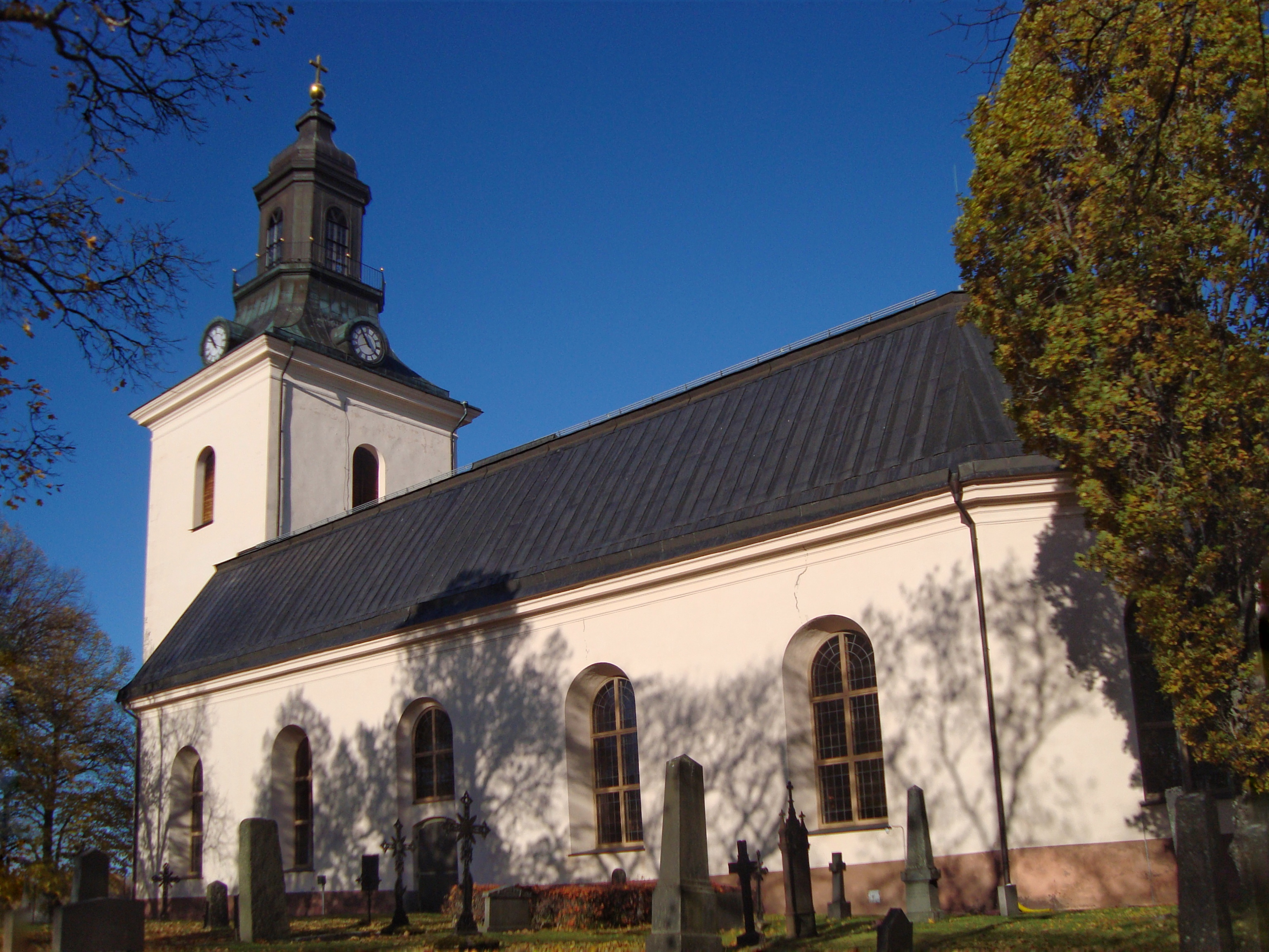 Church of By, Avesta municipality, Sweden